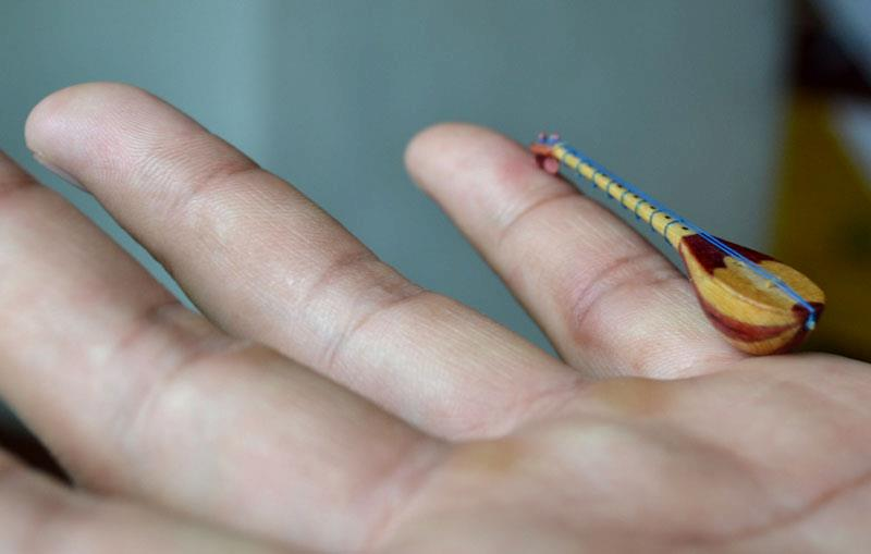 The smalest dombra in Omikbek Kanai's collection